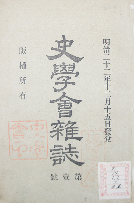 Cover of the first issue of the academic journal Shigaku zasshi, published in 1889